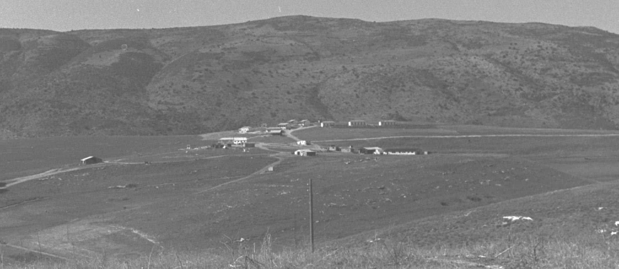 VIEW OF KIBBUTZ GIVOT ZEID NEAR BEIT SHEARIM. קיבוץ גבעות זיד ליד בית שערים.